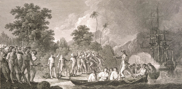 The Landing of James Cook at Tanna, One of the New Hebrides